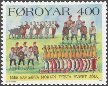 Faroese stamp FR 263 one of two illustrating a traditional counting Christmas song. The gifts include: eleven goats, twelve men, thirteen hides, fourteen rounds of cheese and fifteen deer.